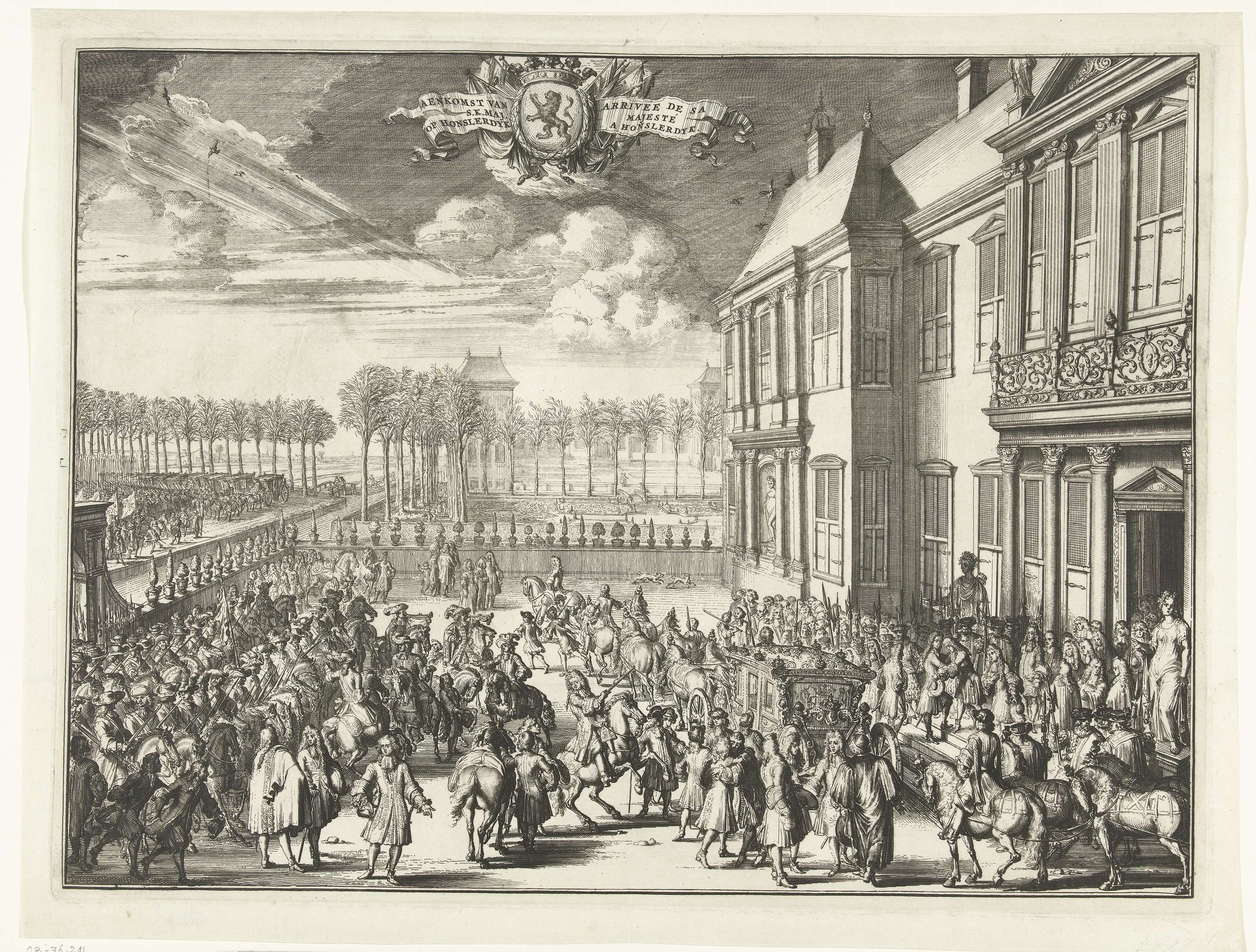 William III arrives at Huis Honselaarsdijk, 1691